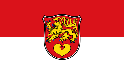 Flag of the German town of Seesen